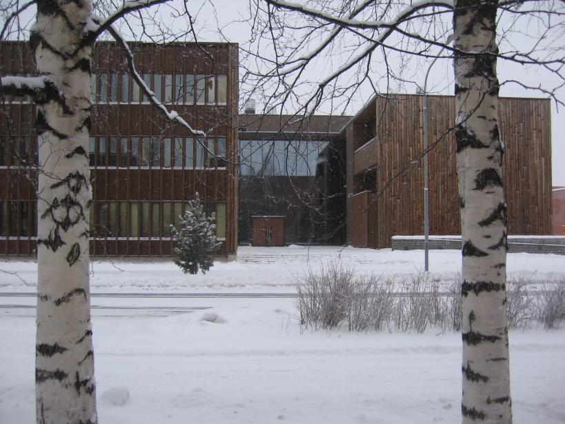 Finnish Forest Research Institute in Joensuu, Metla-talo